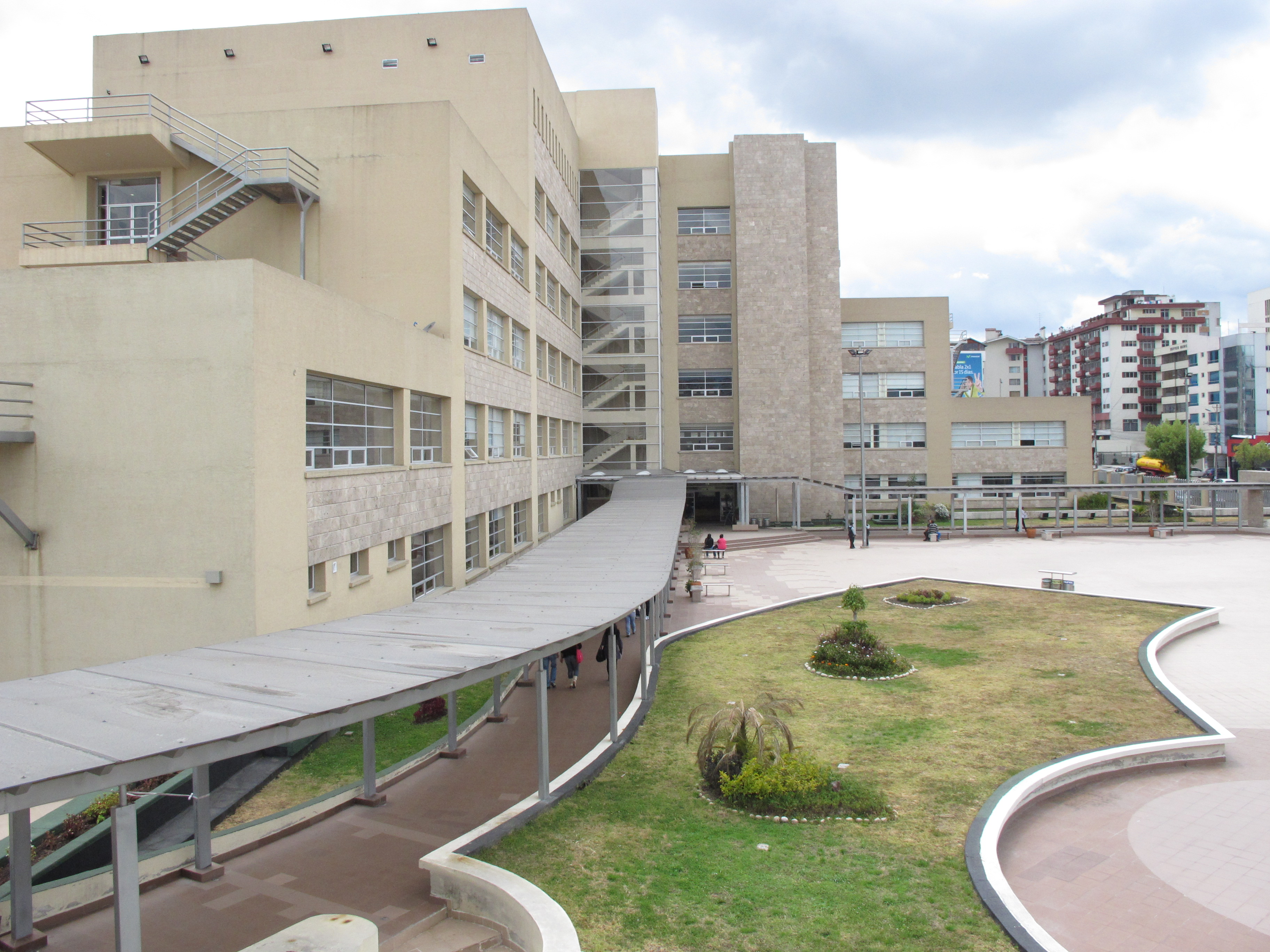 CEC EPN Building - Classroom at Escuela Politécnica Nacional Quito, Ecuador.